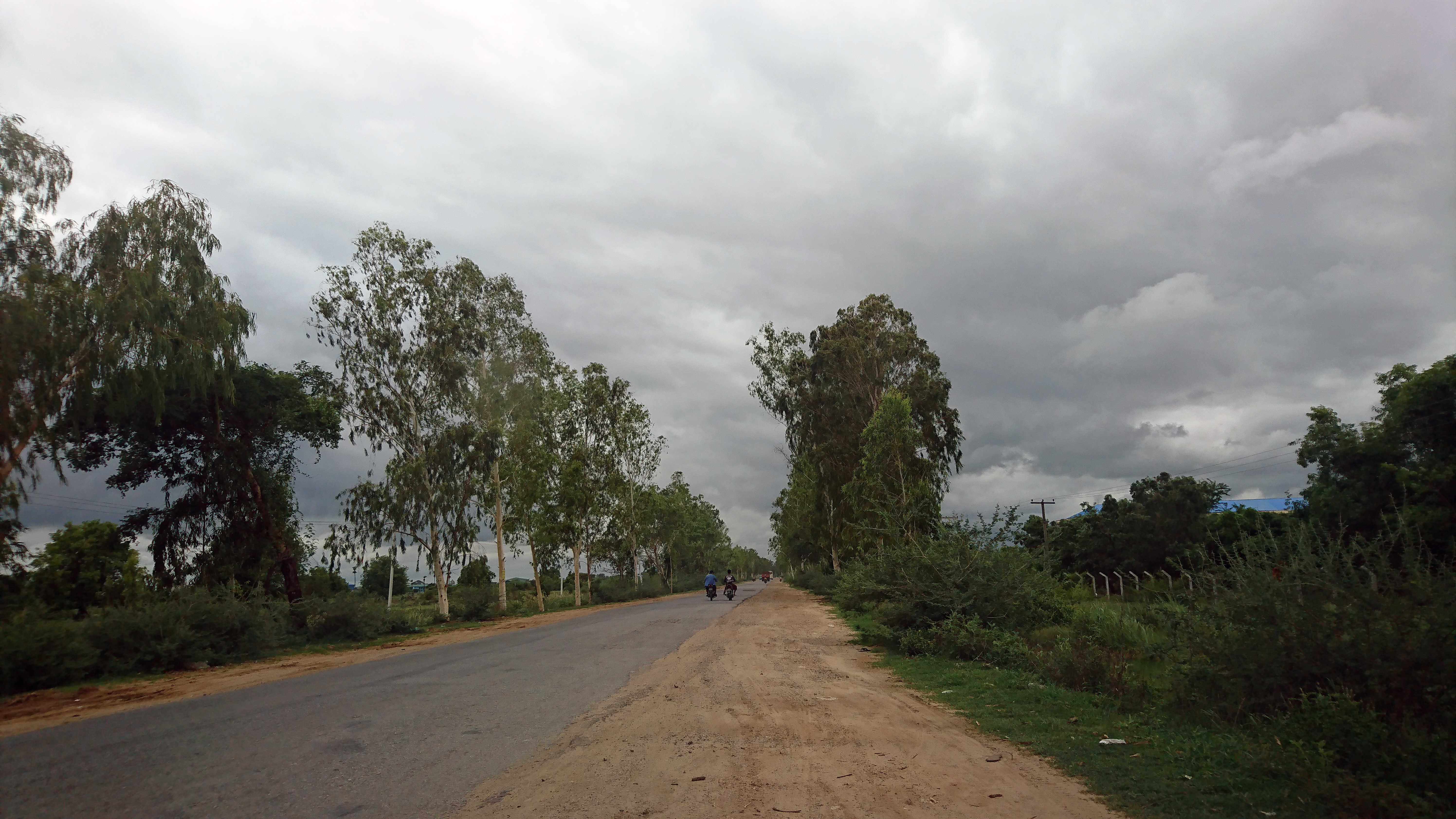 A view of Shwebo-Myitkyina Highway Road မြန်မာဘာသာ: ရွှေဘို-မြစ်ကြီးနား အဝေးပြေးလမ်းတစ်နေရာ